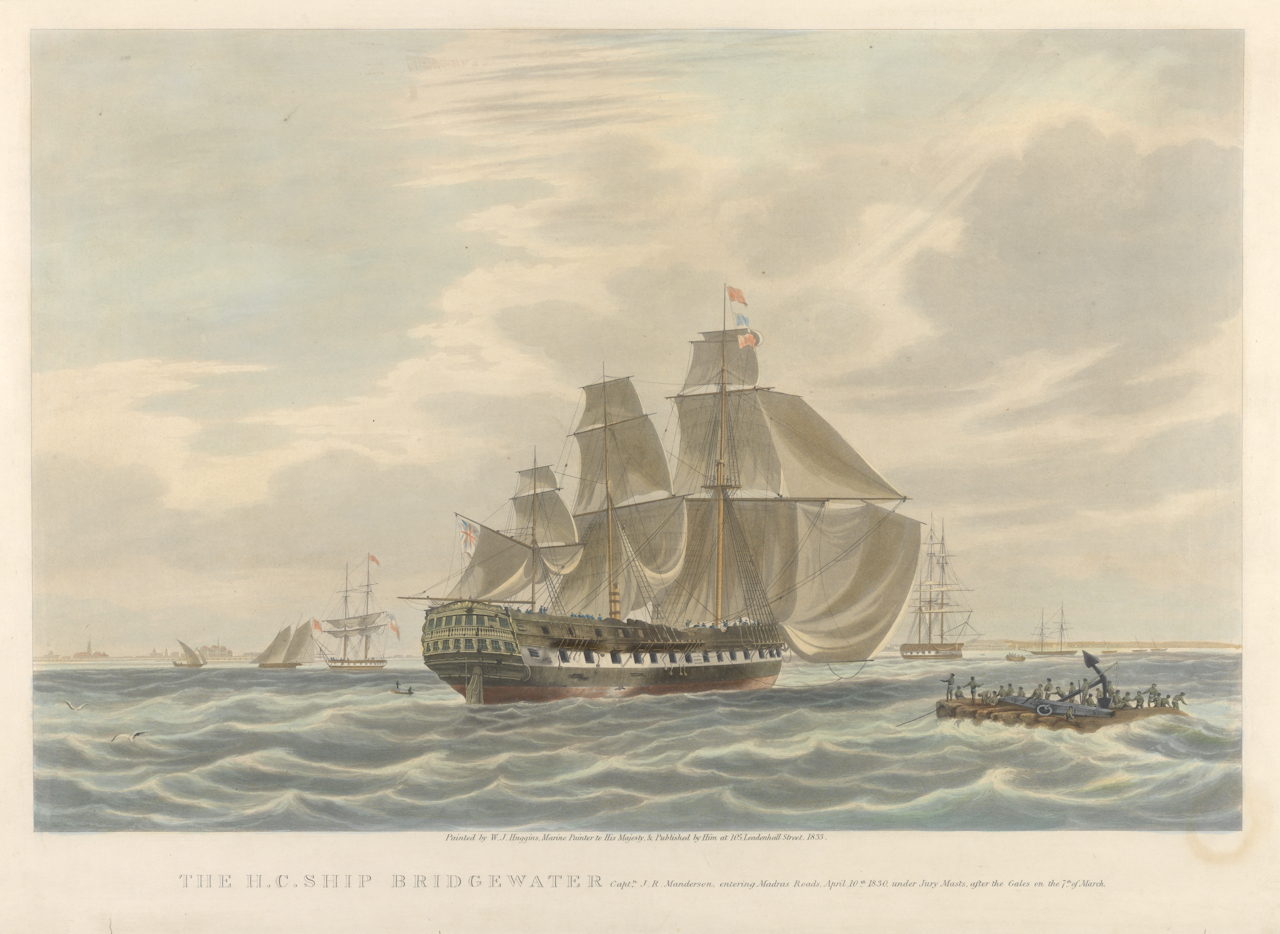 The H.C. Ship Bridgewater Capt J.R. Manderson, entering Madras Roads April 10th 1830 under Jury Masts, after the Gales of the 7th of March Hand coloured aquatint showing the Bridgewater (1812) running into Madras on 10 April 1830 under a jury rig and storm damaged. The H.C. Ship Bridgewater Capt J.R. Manderson, entering Madras Roads April 10th 1830 under Jury Masts, after the Gales of the 7th of March